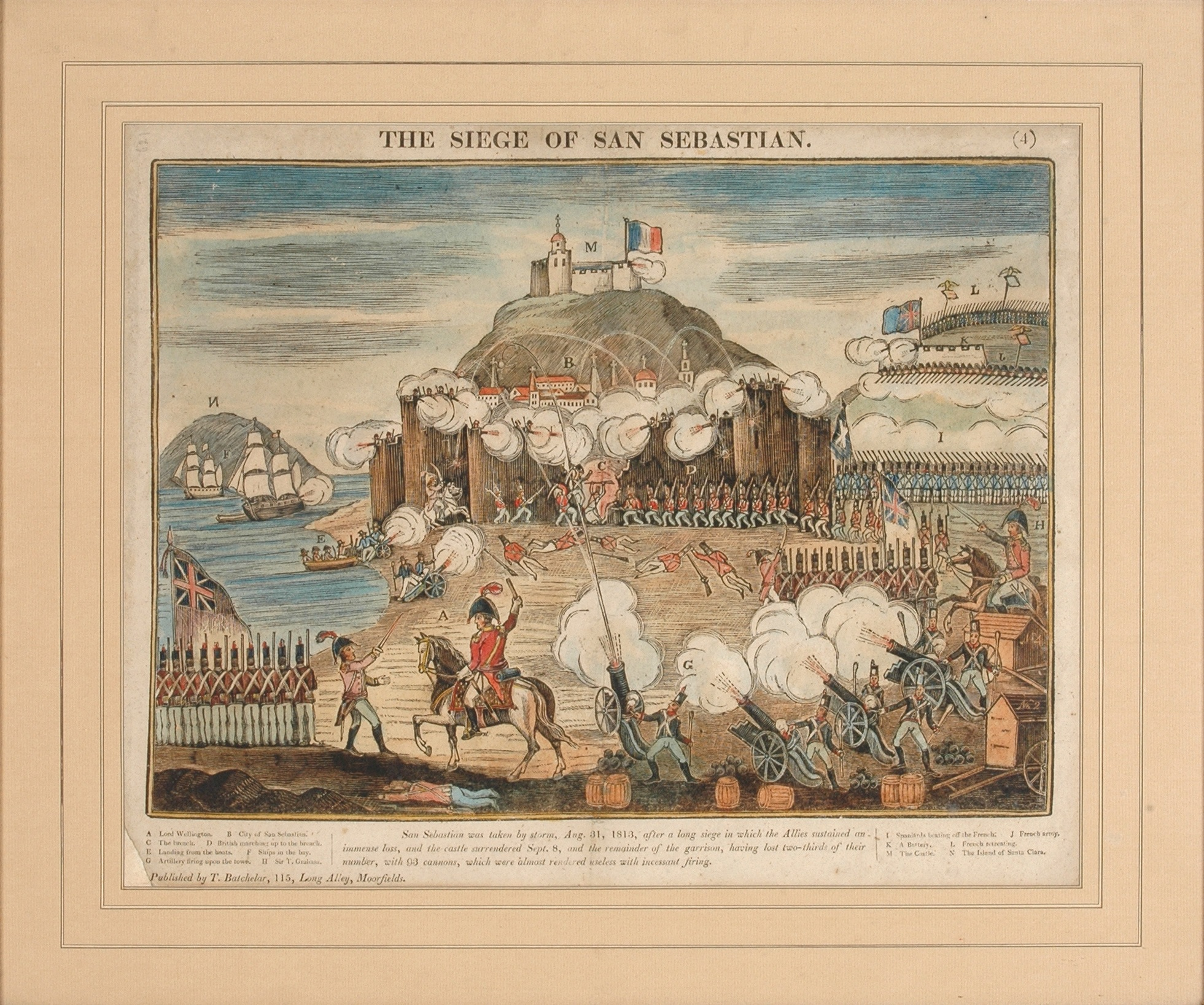 1813 Siege of San Sebastian painting